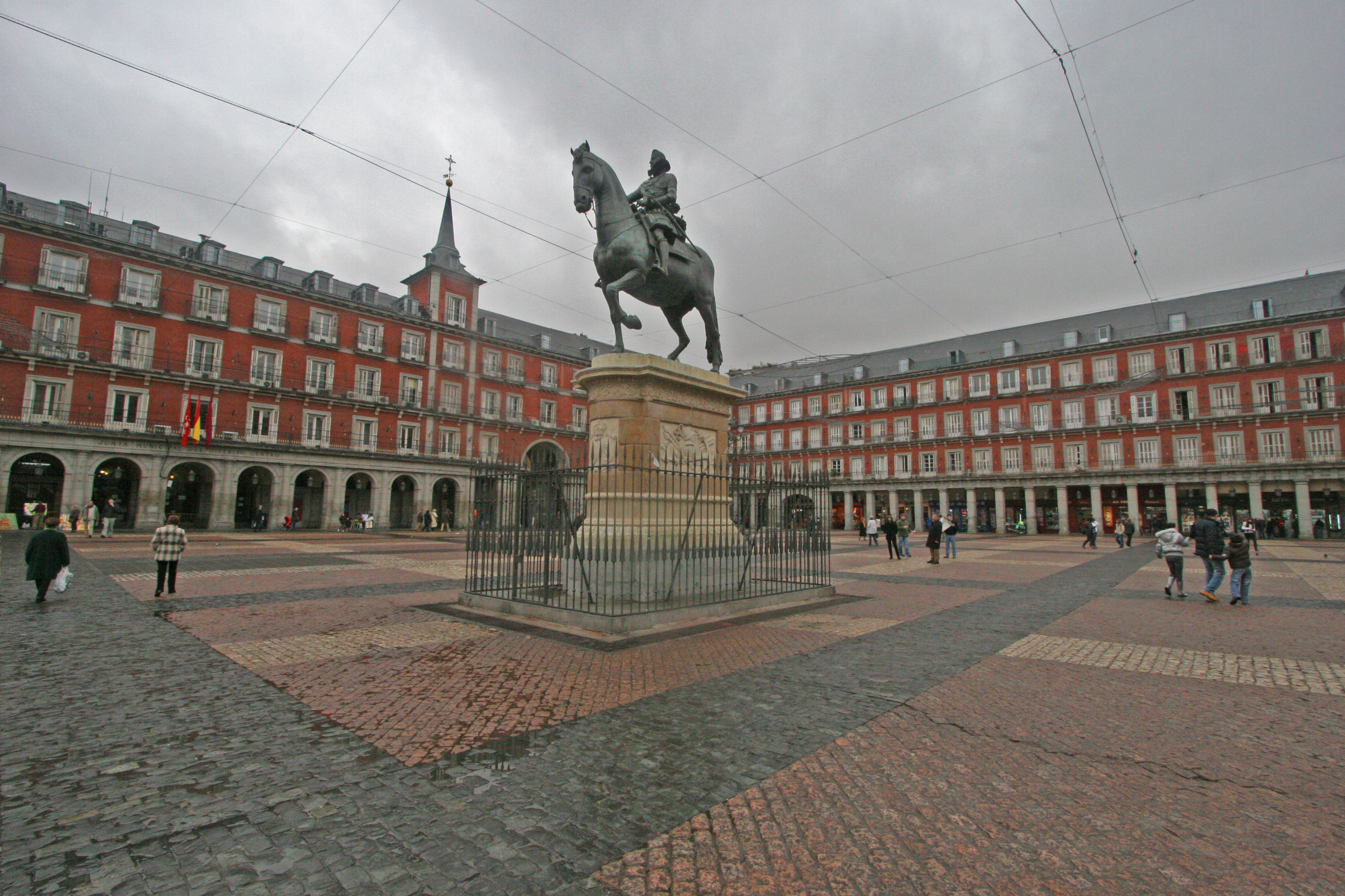 Plaza Mayor (square) of Madrid (Spain). At the centre, monument to king Philip III (1578–1621).